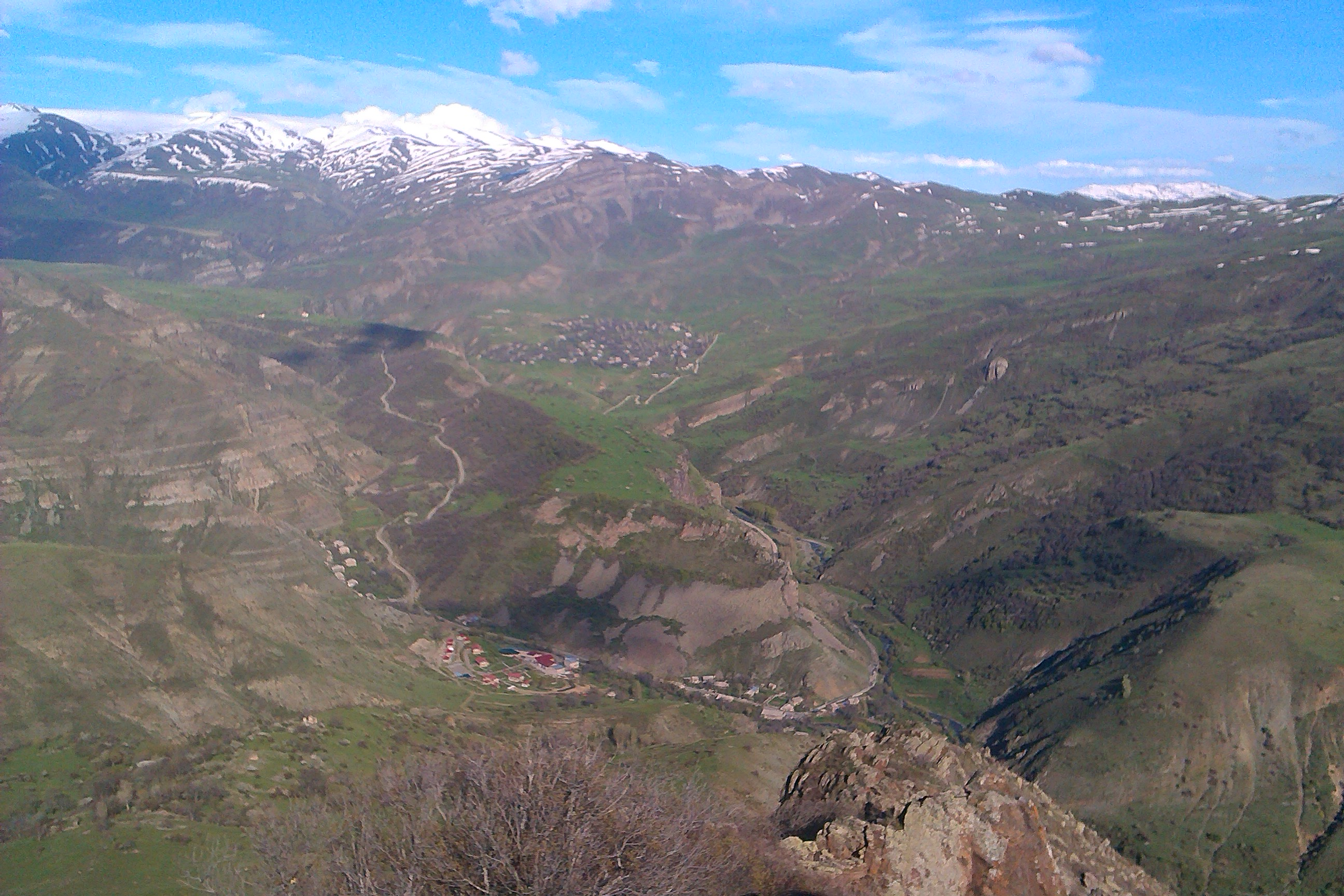 Hermon and Goghtanik villages, Vayots Dzor, Armenia